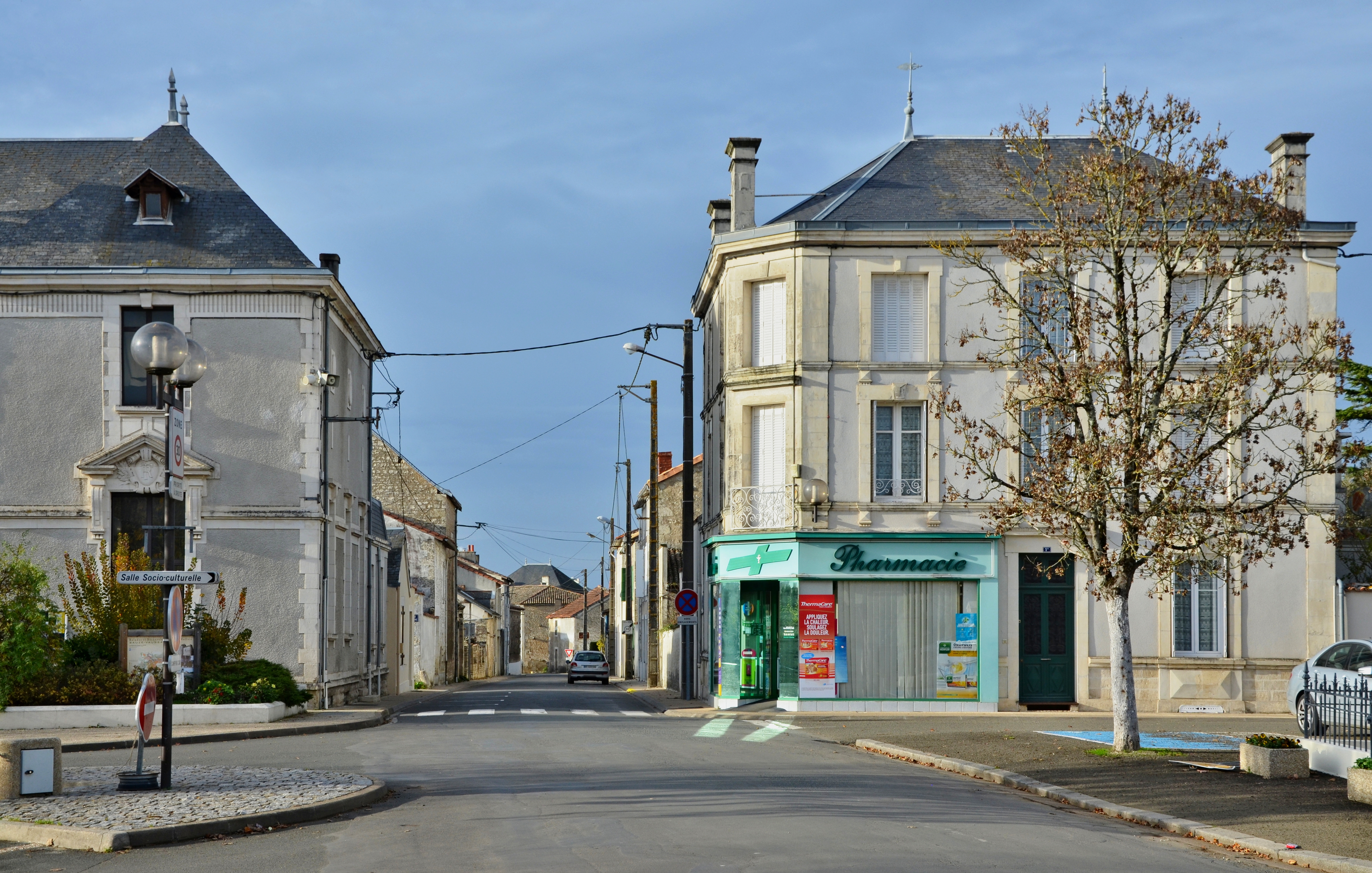 Crossroad, place des Halles, Sauzé-Vaussais, Deux-Sèvres, France.